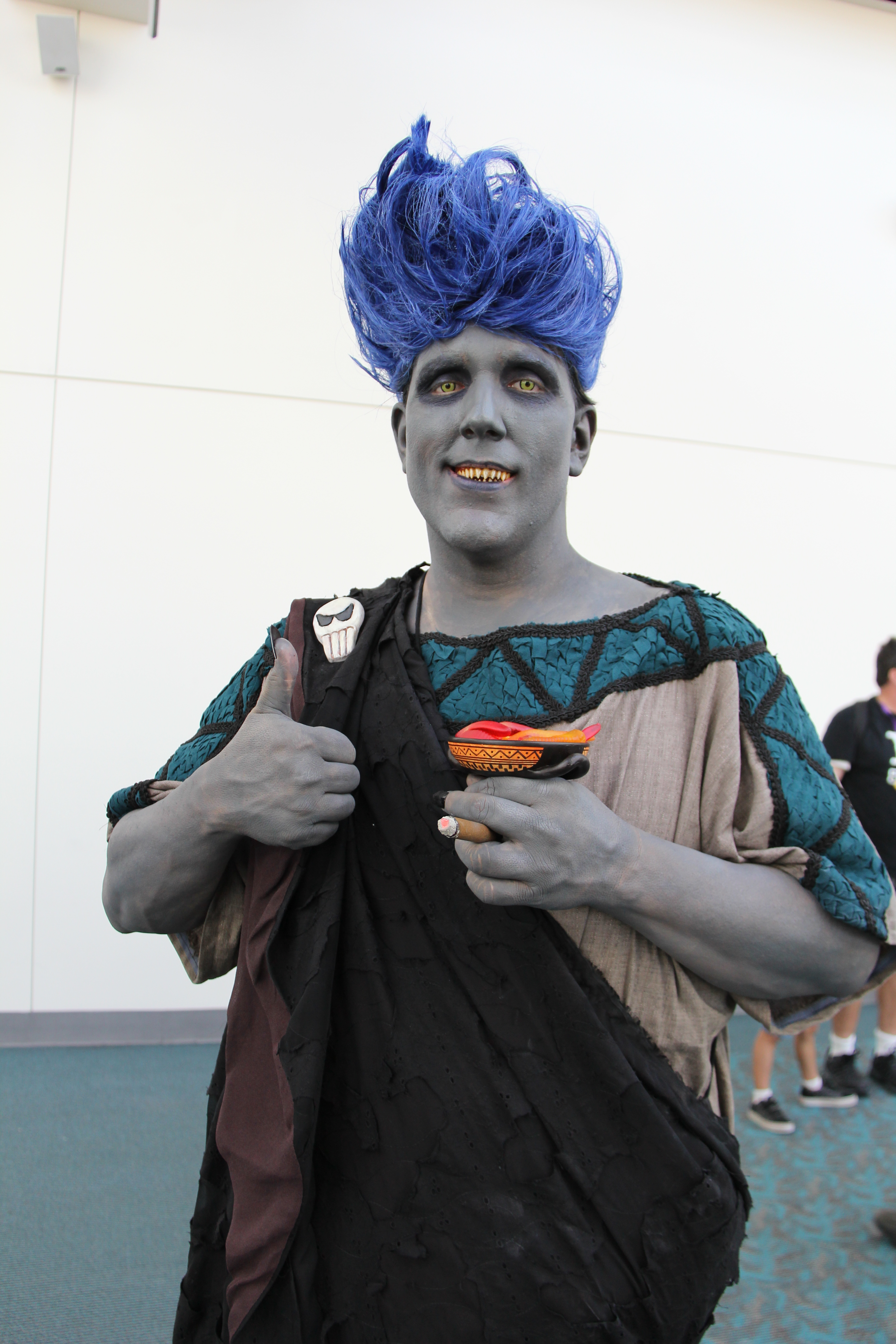 IMG_0309 Cosplay at San Diego Comic-Con (SDCC 2014).